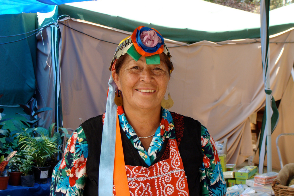 Mapuchita (Mapuche) native woman of Chile